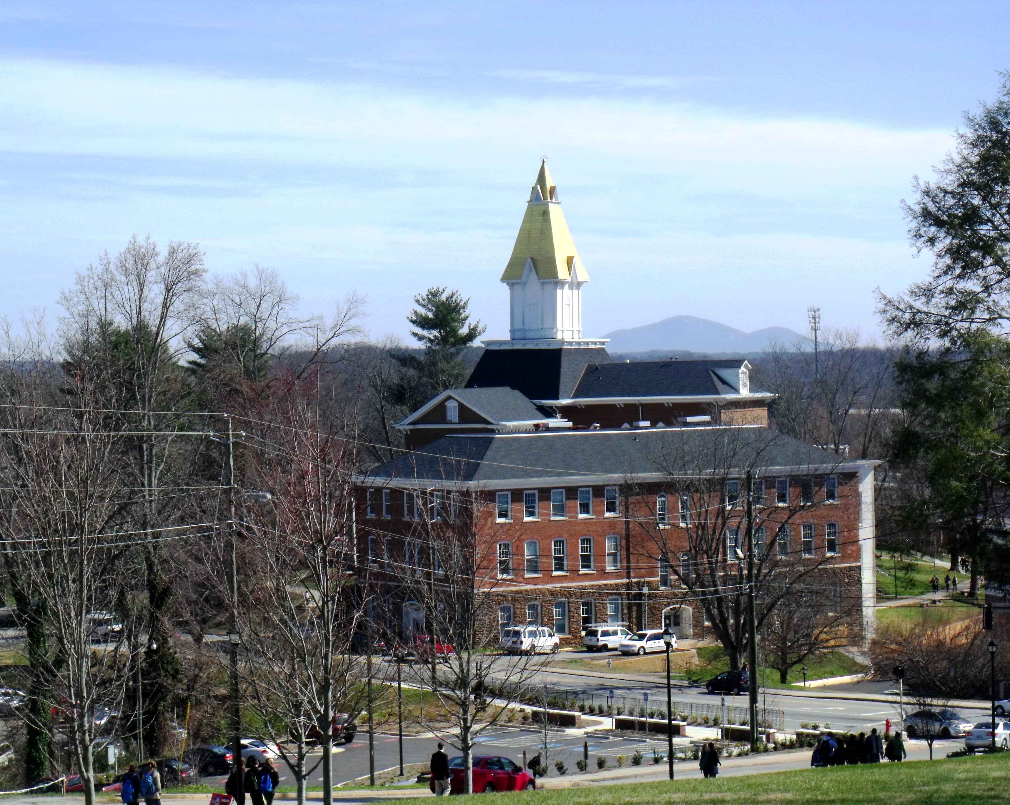 The Price Memorial Hall Building is the oldest building at any of the University of North Georgia's campuses.